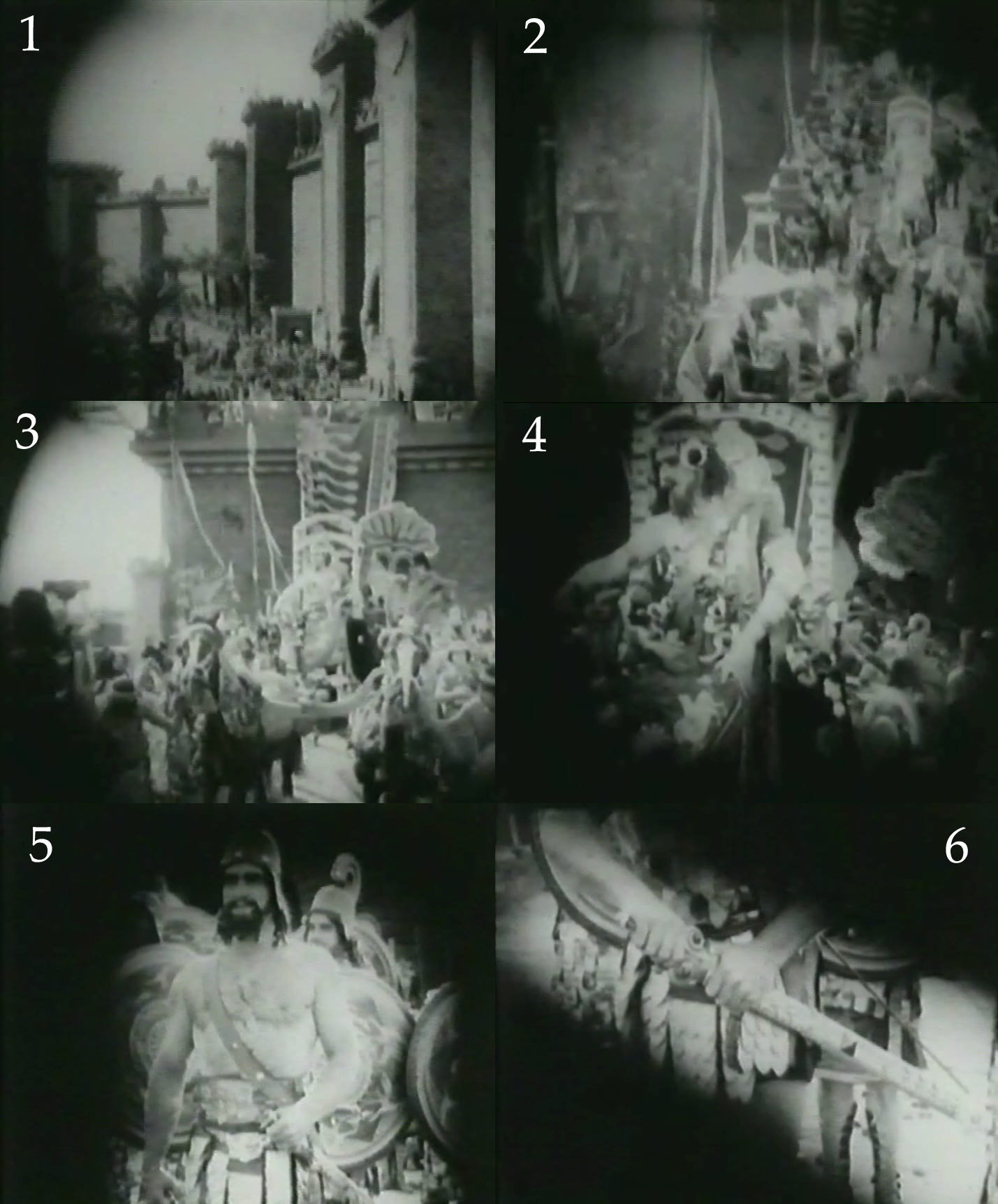 Scene from the movie Intolerance. 1916.